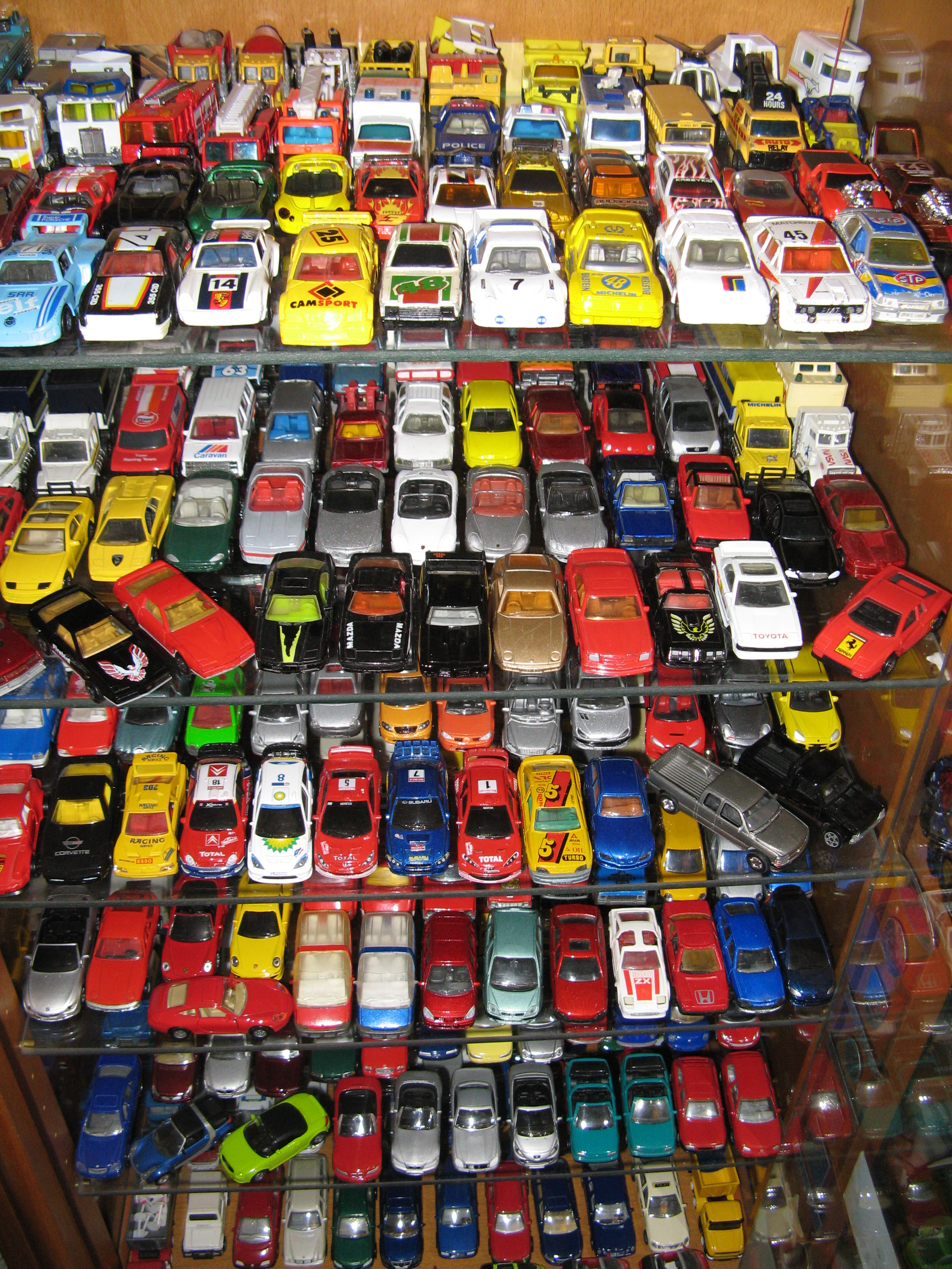 Collection of model cars in scales around 1:55